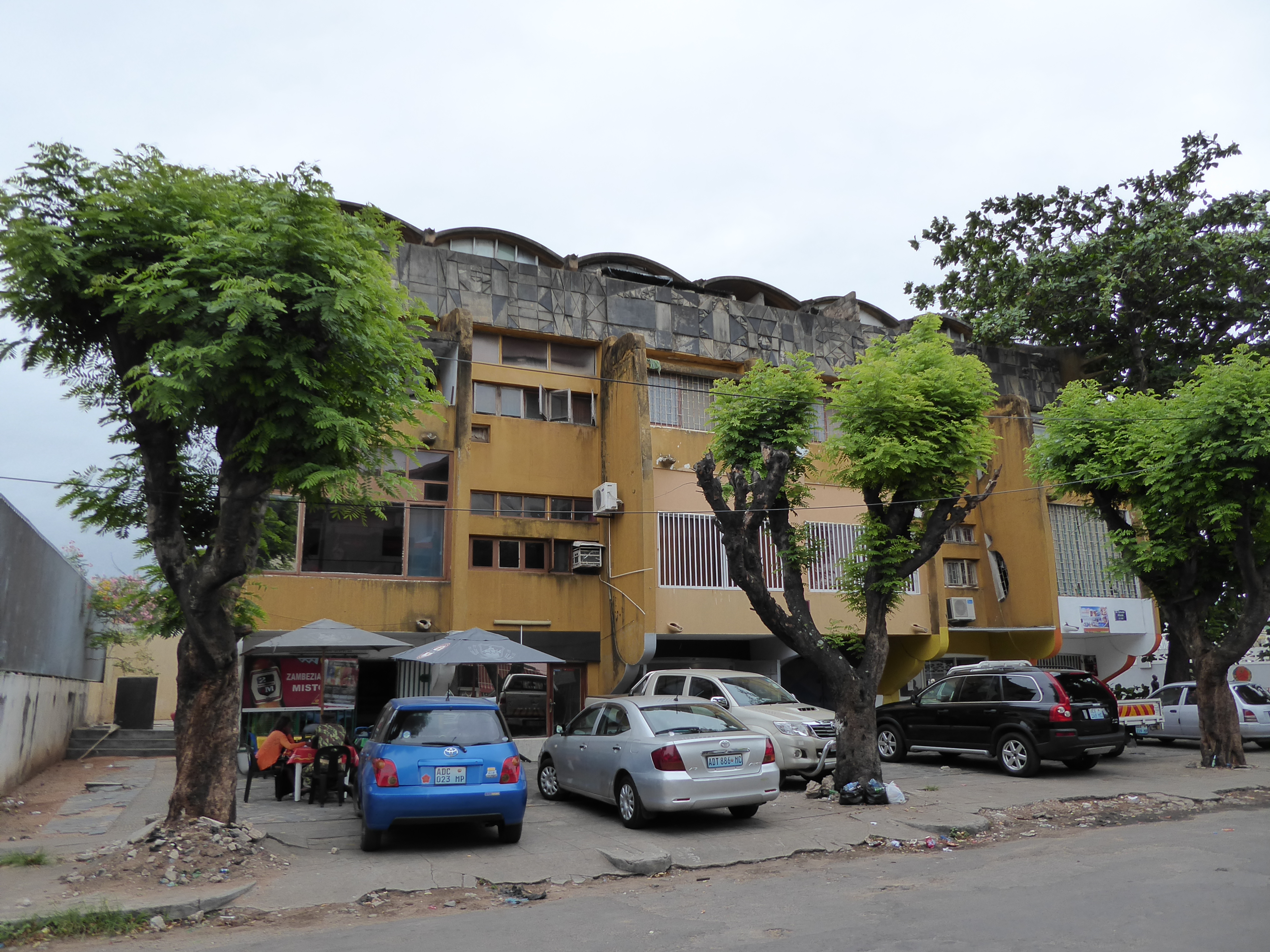 O Leão Que Ri building, Maputo, Mozambique